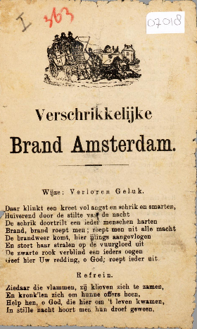 Broad sheet (music sheet) with songtext 'Terrible fire Amsterdam' (fragment).